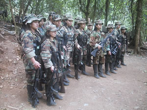 FOR IMMEDIATE RELEASE FARC guerrillas during the Caguan peace process March 22, 2006 DEA Public Affairs